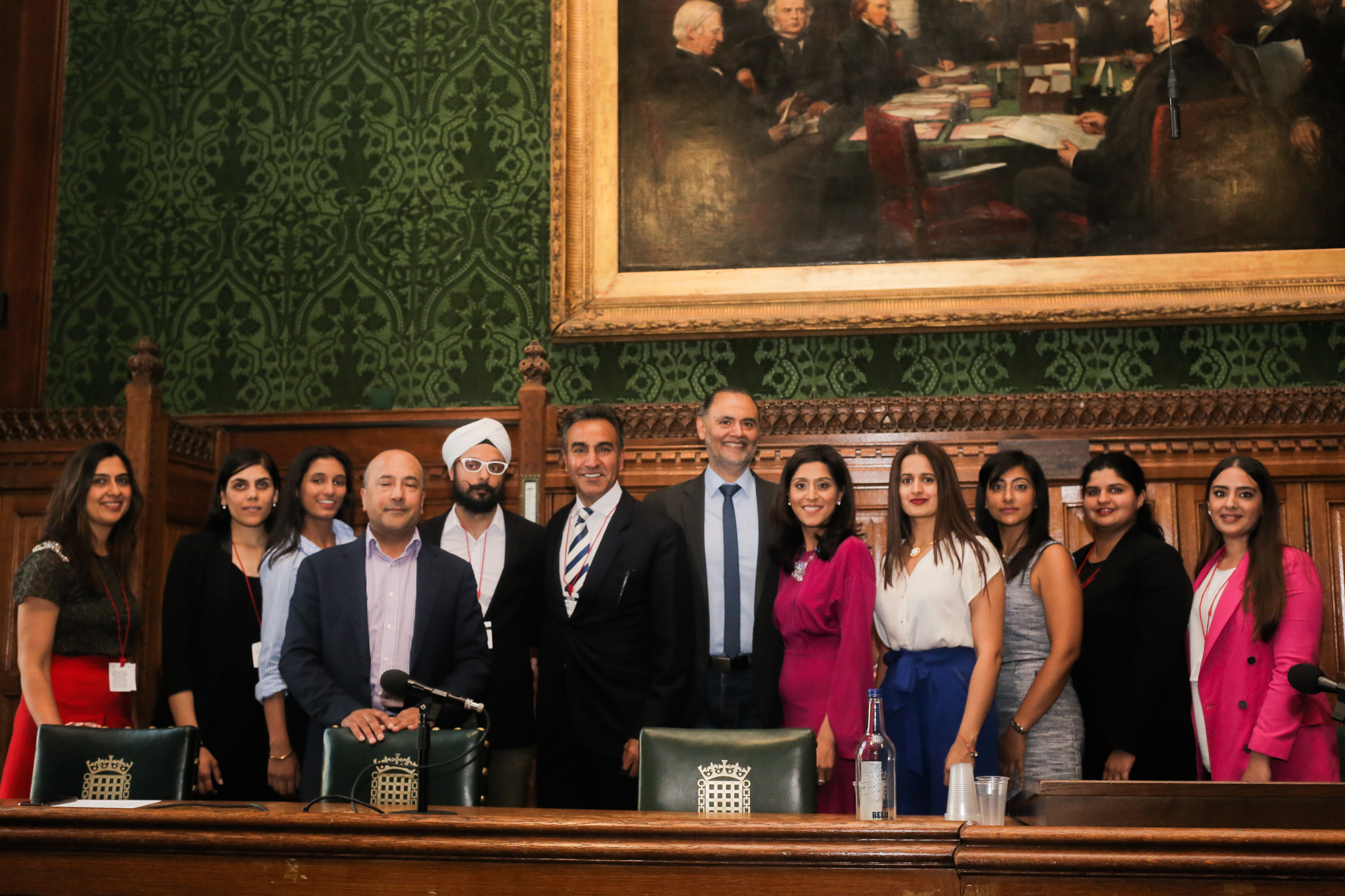 City Sikhs Recipes for Success 2018 with volunteers and speakers from the British Sikh community